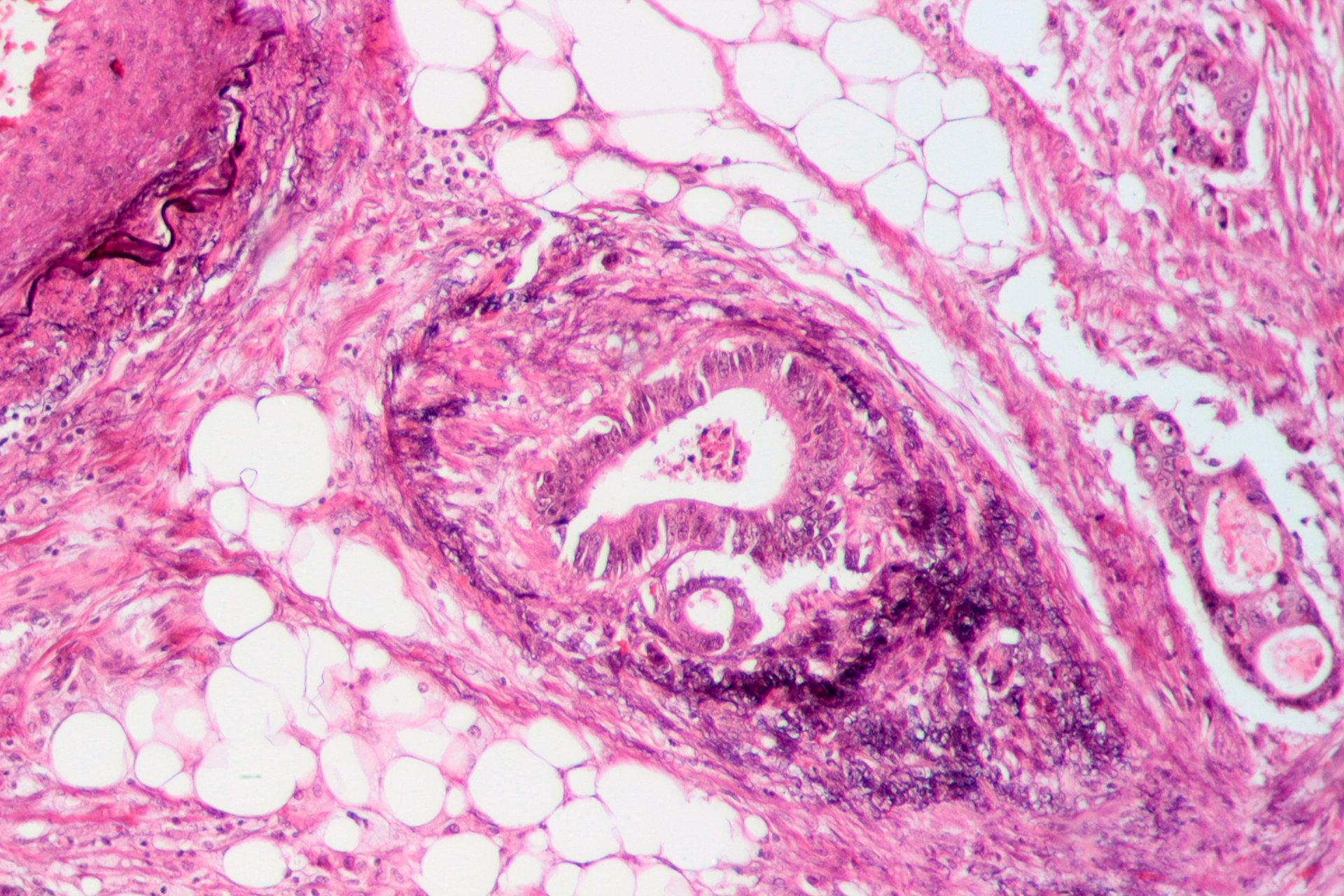 tumor invasion into vein in a case of colorectal cancer.